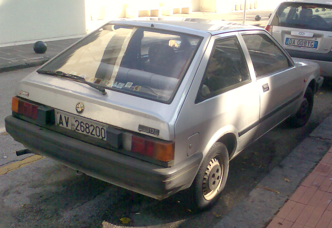 Alfa Romeo Arna